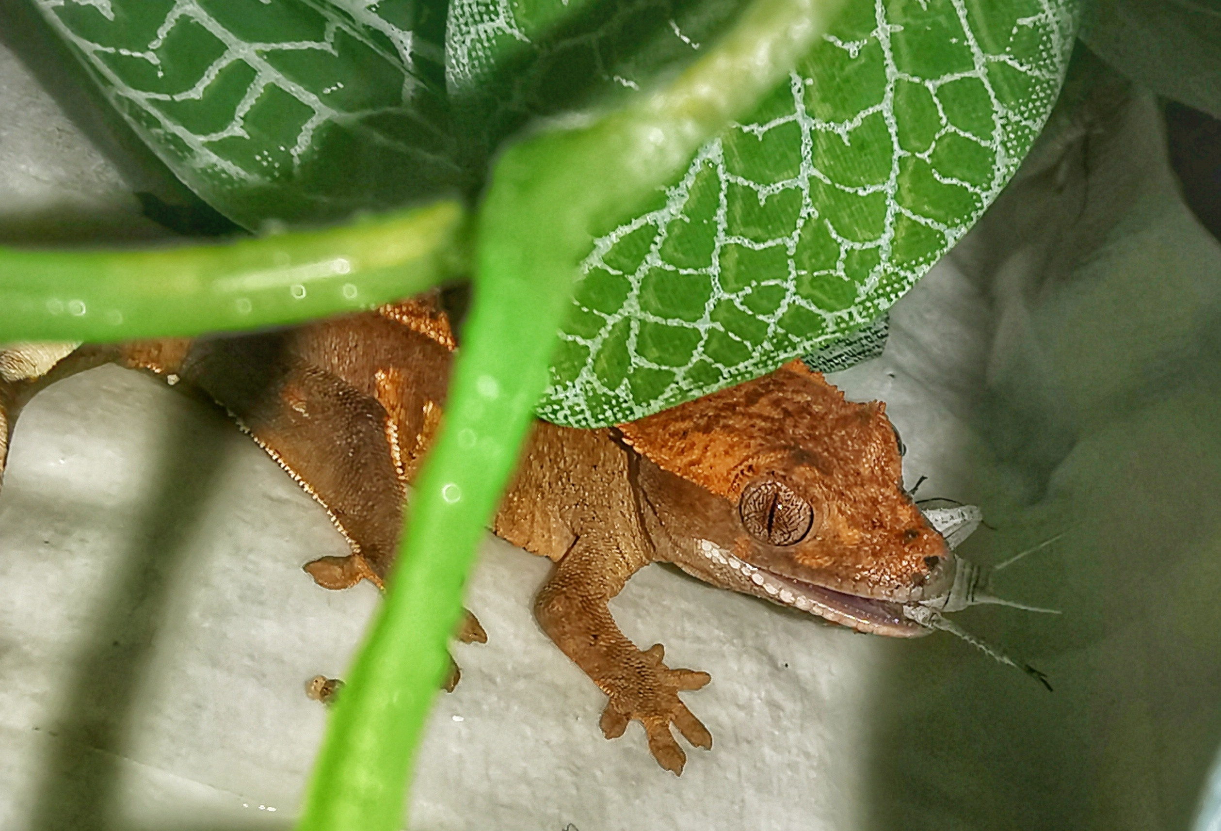 Baby crested gecko eating a cricket